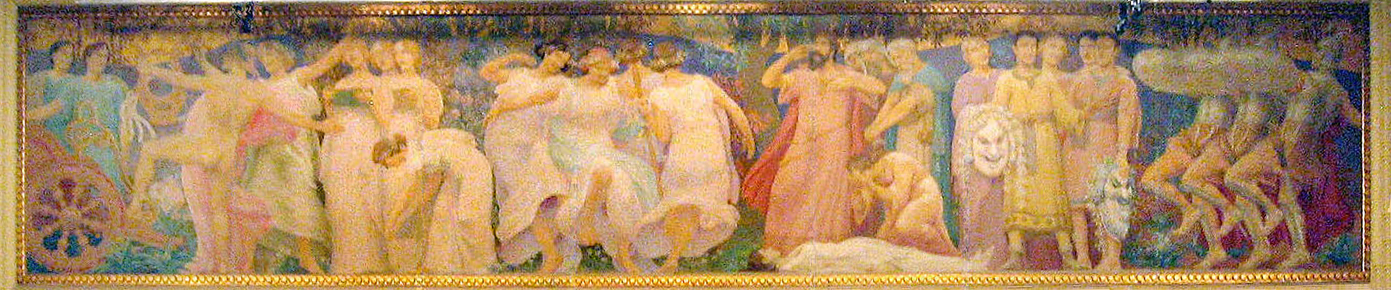 Painting by Constant Montald above the podium in the theatre of Leuven, Belgium. In the image are two separate scenes: "Apollo and the muses" (on the left Apollo with lyre pictured from the back while climbing onto the chariot, beside him 9 muses dressed in white) on the other side "Orpheus lamenting Euridyce" (at the front-right Eurydice in white with Orpheus kneeling beside her, crying. Then also 5 men amongst which 2 with a mask (comedy and tragedy) and three men who might be tragedy writers Aeschylus, Sophocles en Euripides. On the far right 3 Thracian warriors moved by Orpheus' lament over the loss of Eurydice.